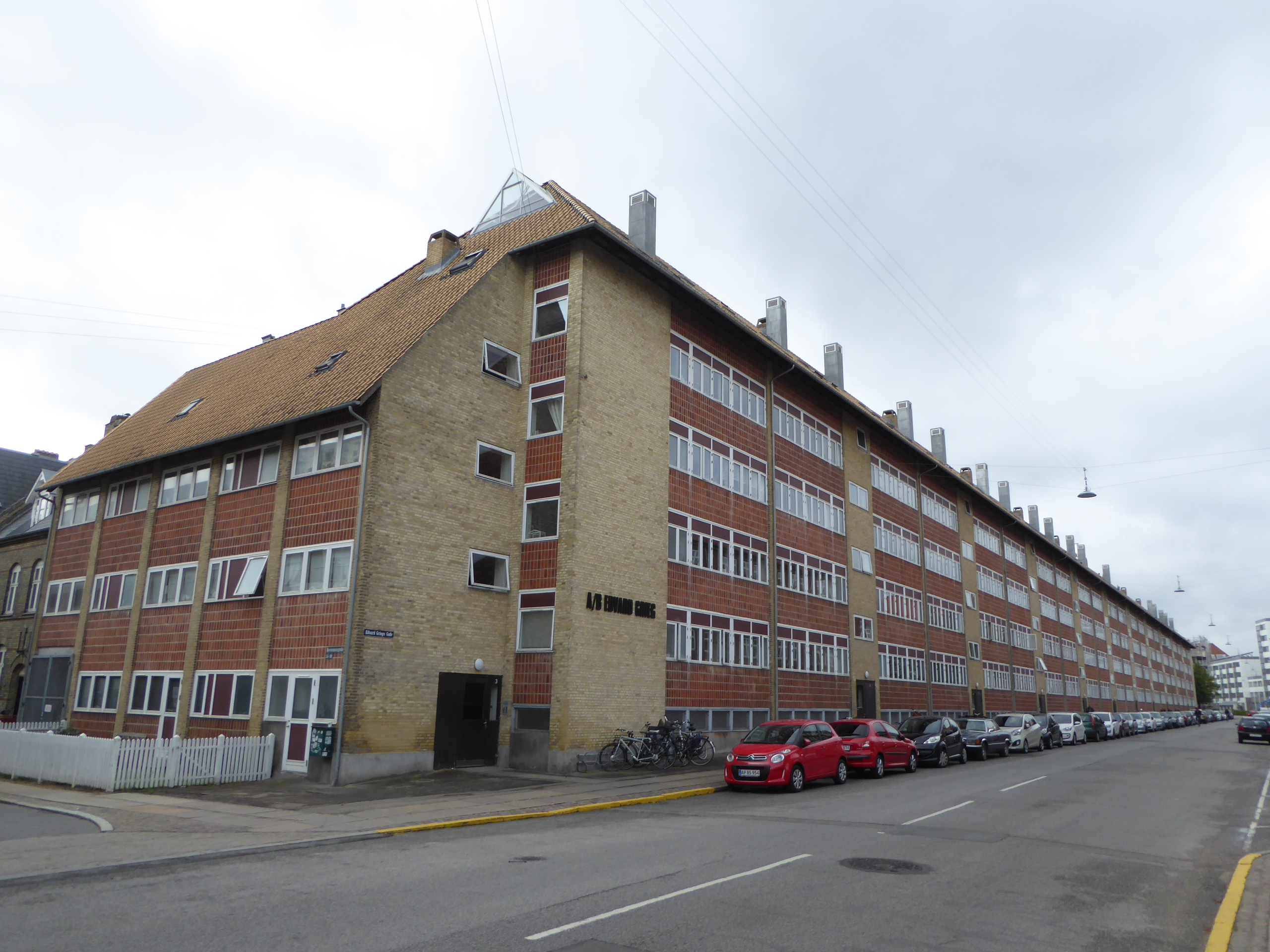 The housing cooperative A/B Edvard Grieg at Edvard Griegs Gade in Østerbro in Copenhagen.